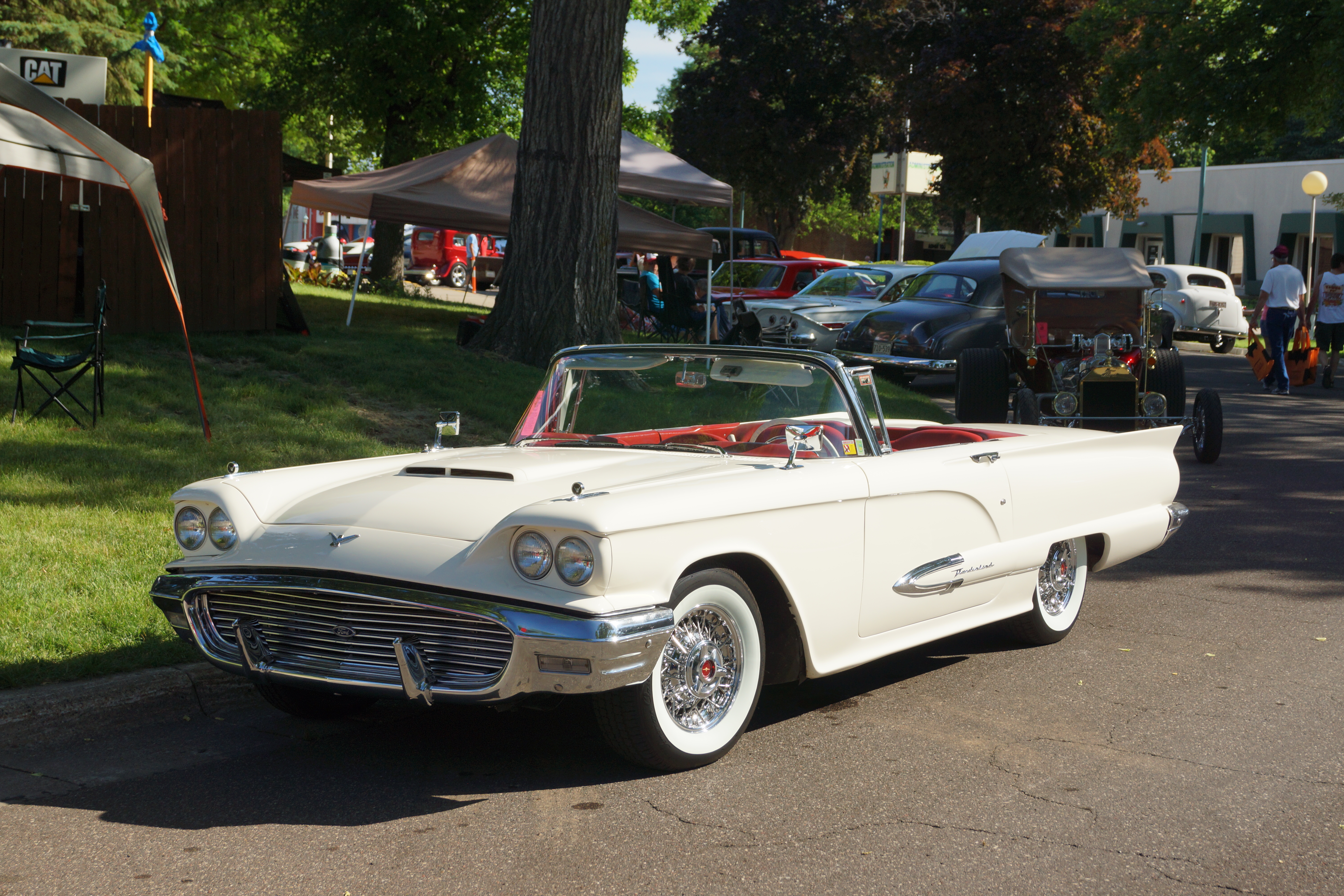 Minnesota Street Rod Association (MSRA) “BACK TO THE 50′s” 43nd Annual Car Show June 17-19, 2016 State Fairgrounds St. Paul, Minnesota Click here for more car pictures at my Flickr site. Also on Tumblr